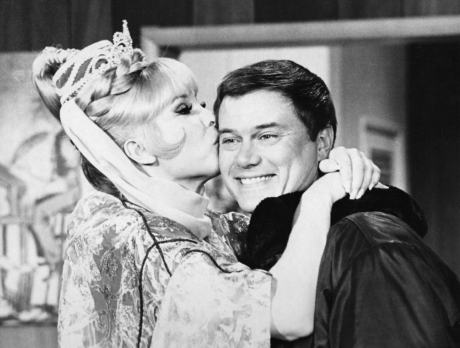 Photo of Barbara Eden and Larry Hagman from the television comedy I Dream of Jeannie. Tony finally proposes and Jeannie accepts.